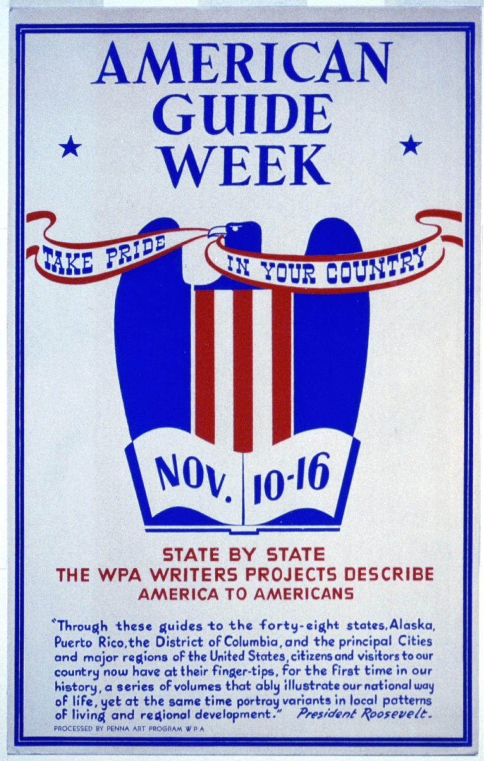 Title: American guide week, Nov. 10-16 Abstract: Poster showing stylized eagle and quotation from President Franklin Roosevelt about the Writers' Project. Physical description: 1 print on board (poster) : silkscreen, color. Notes: Work Projects Administration Poster Collection (Library of Congress).; Date stamped on verso: Nov 6 1941.; processed by Penna. Art Program, WPA.